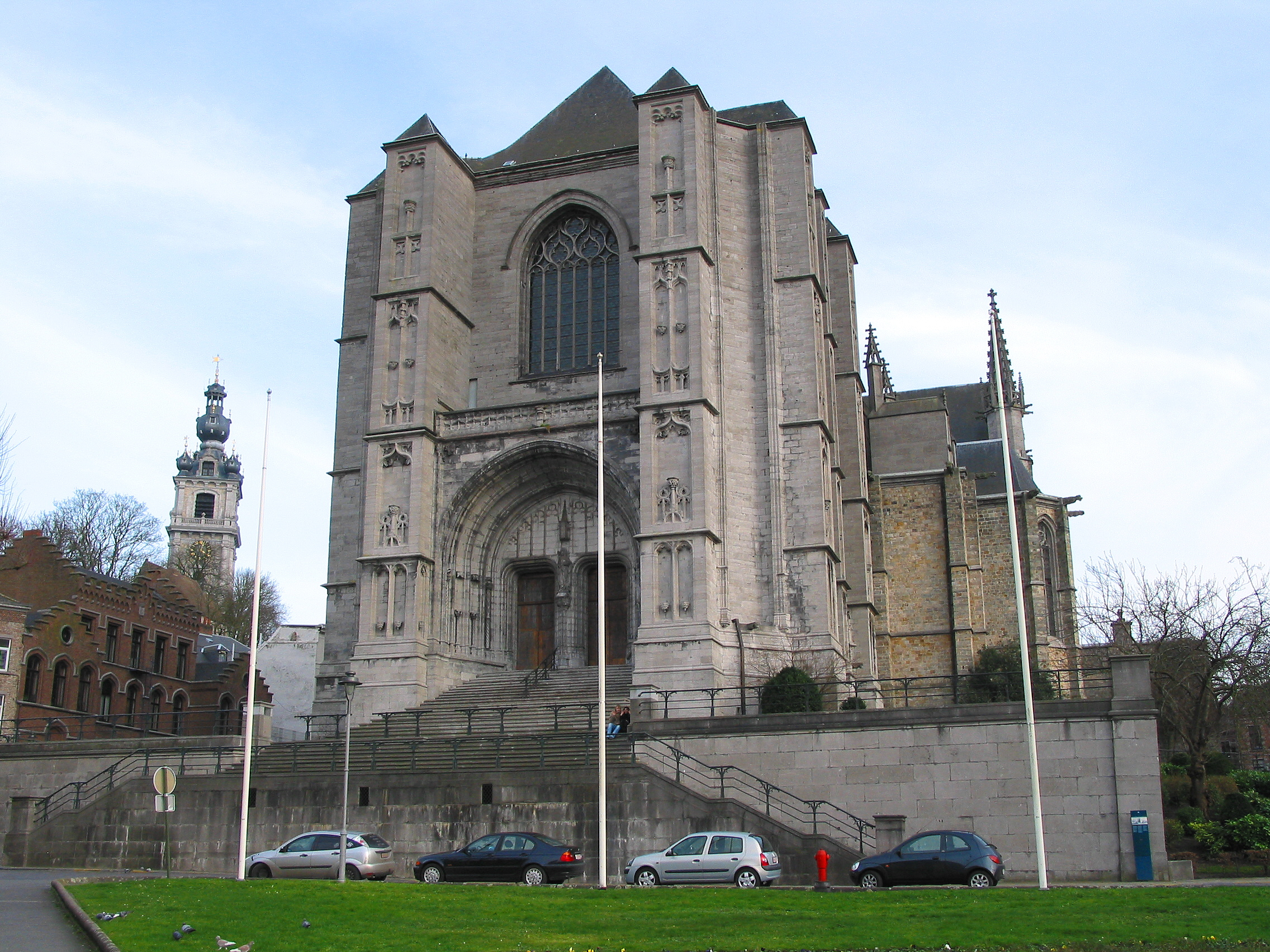 Mons (Belgium), the Sainte-Waudru collegiate church and the belfry (XV/XVIIth centuries).